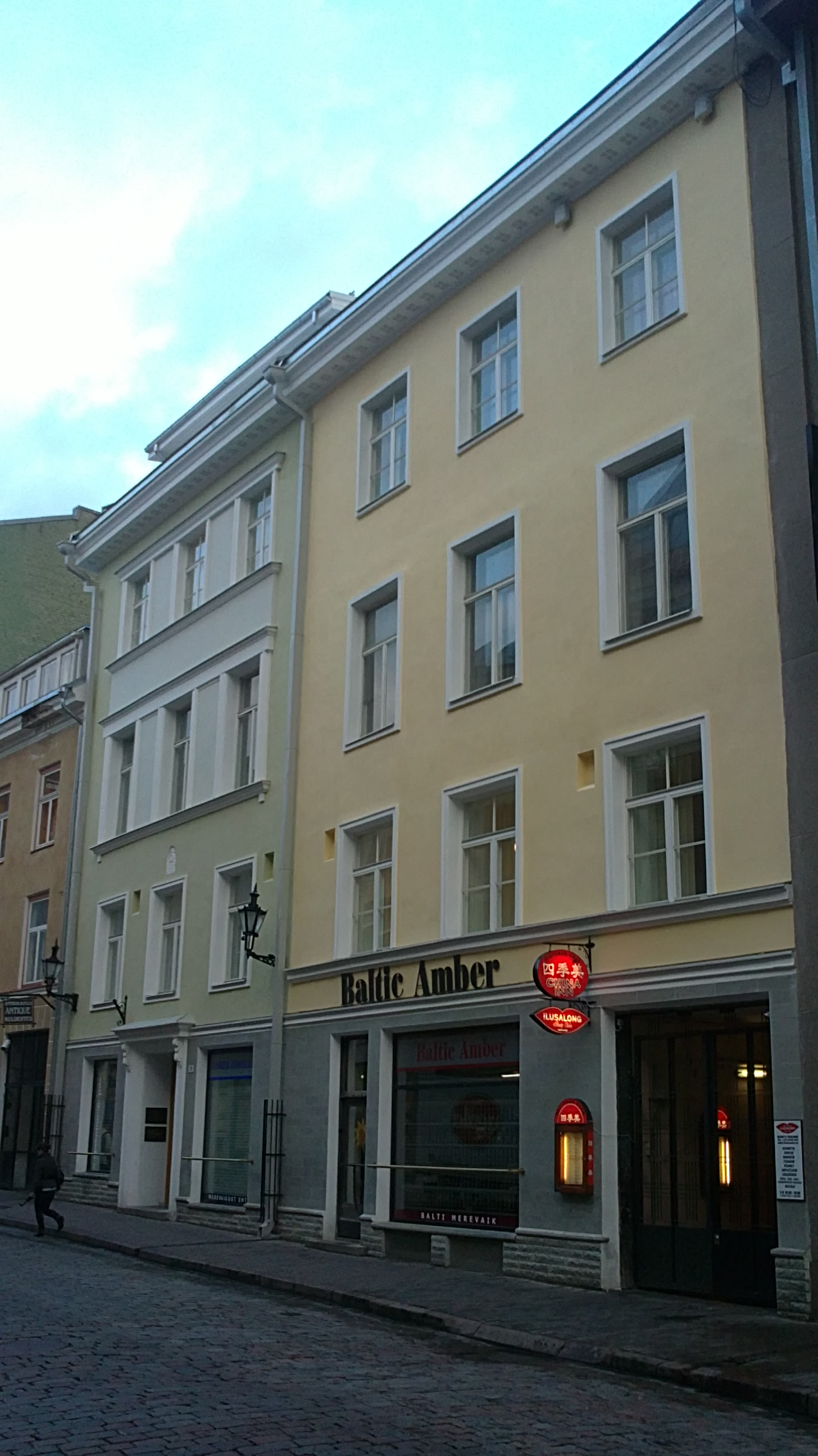 Building in Tallin old town, Viru str. 9